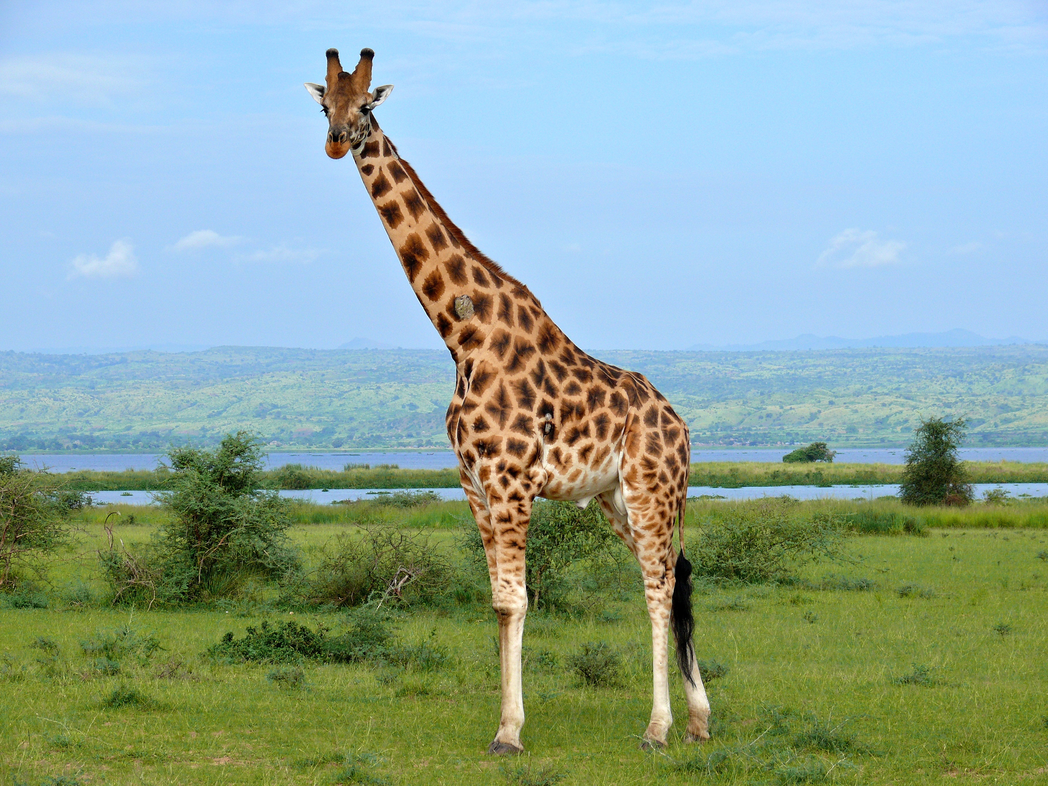 Rothschild's giraffe (Giraffa camelopardalis rothschildi) at Murchison Falls NP, UGANDA